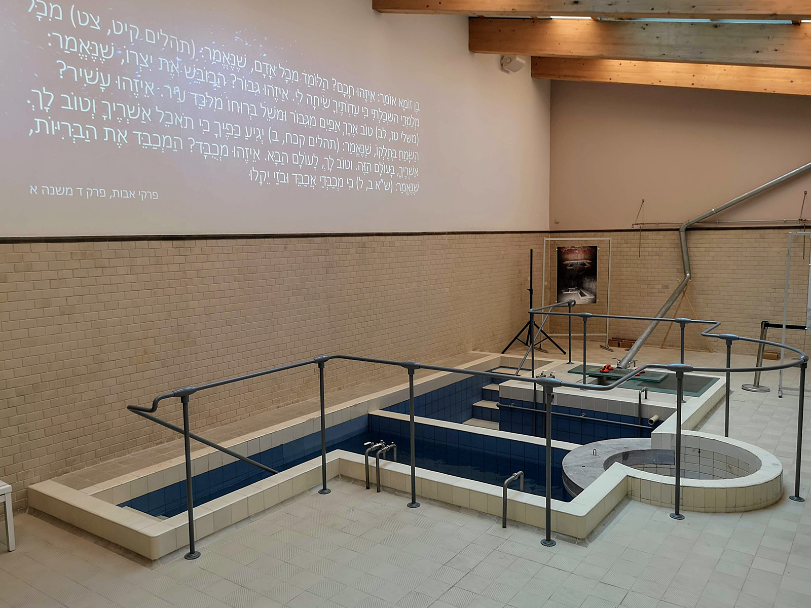 Mikveh - White Stork Synagogue in Wroclaw, Poland.